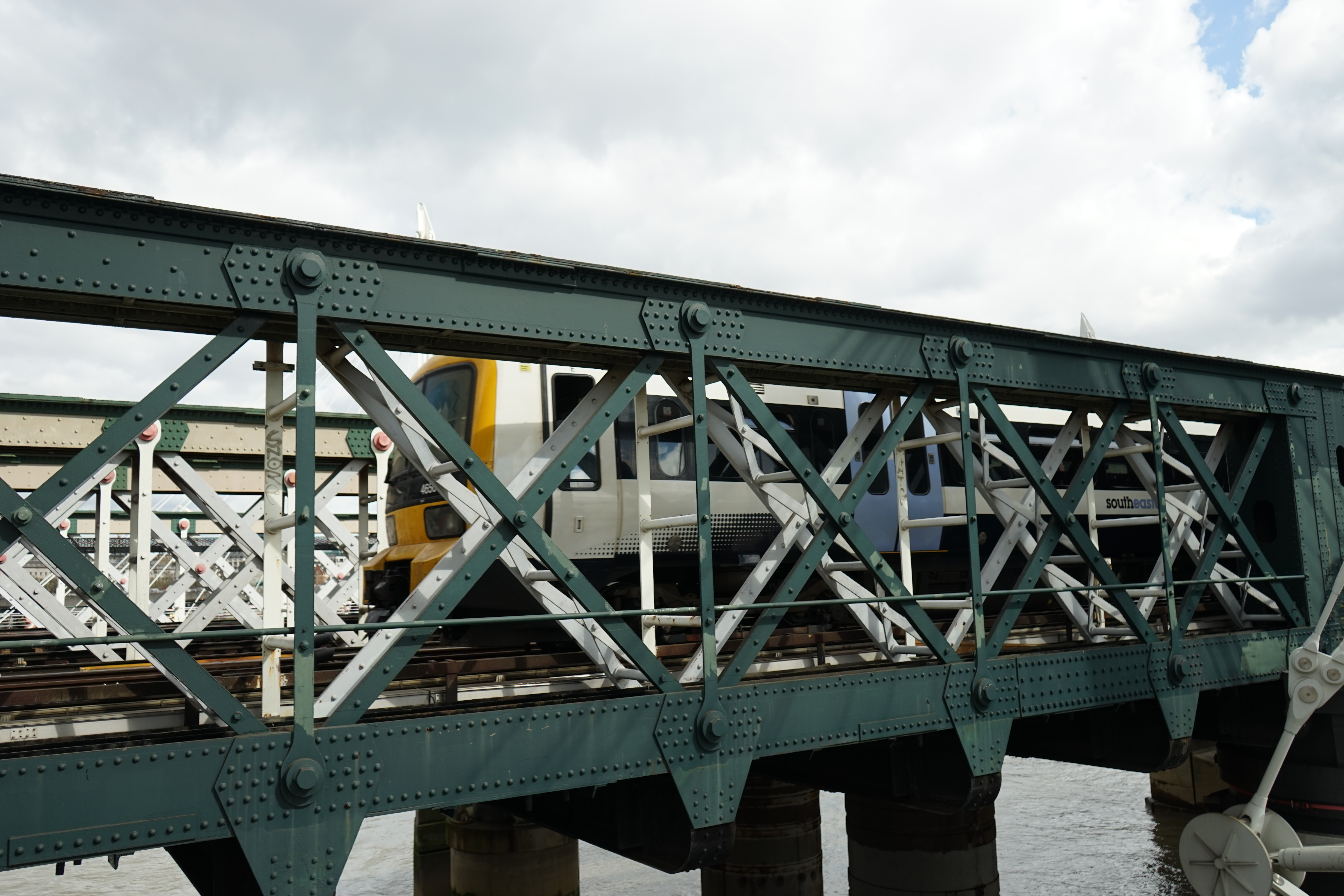 Hungerford Bridge railway bridge on Thames river 1864.